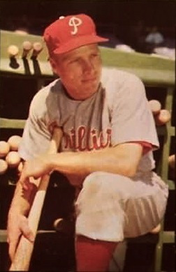 Philadelphia Phillies centerfielder Richie Ashburn. Levels and saturation adjusted.